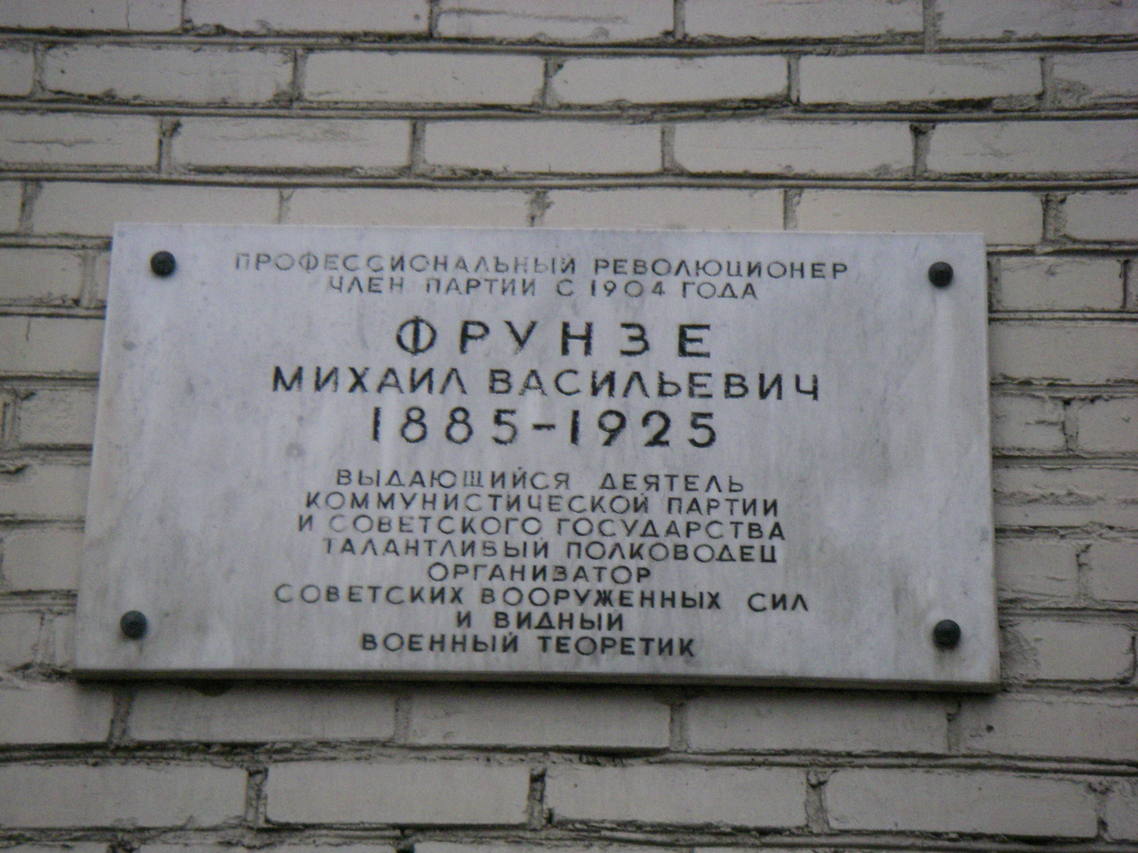 Memorial plaque on Frunze st., St. Petersburg, Russia